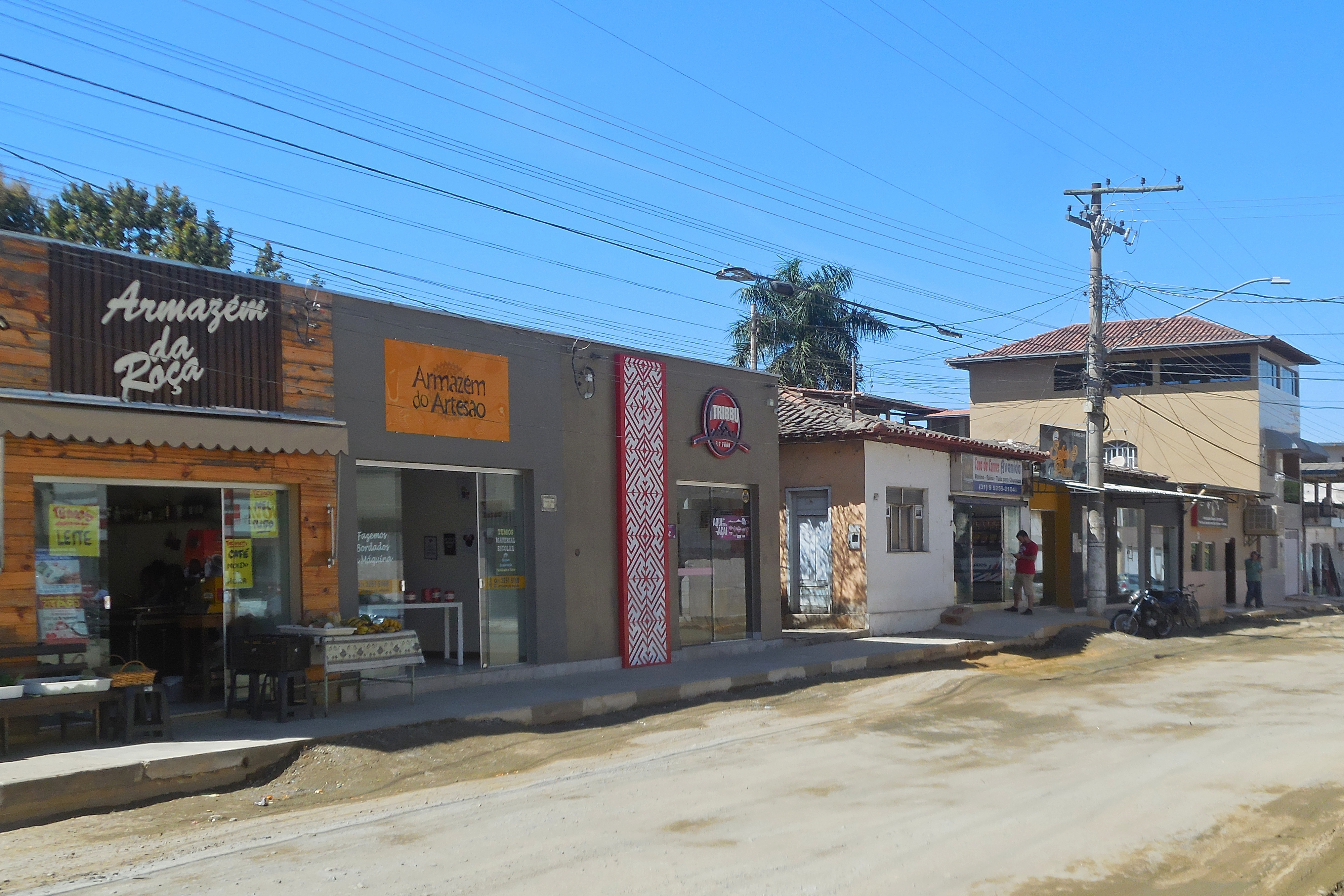 Commerce in the downtown of Santana do Paraíso, Minas Gerais, Brazil.